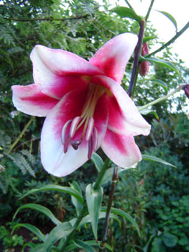 Lilium 'Northern Carillon', an Orientpet hybrid.